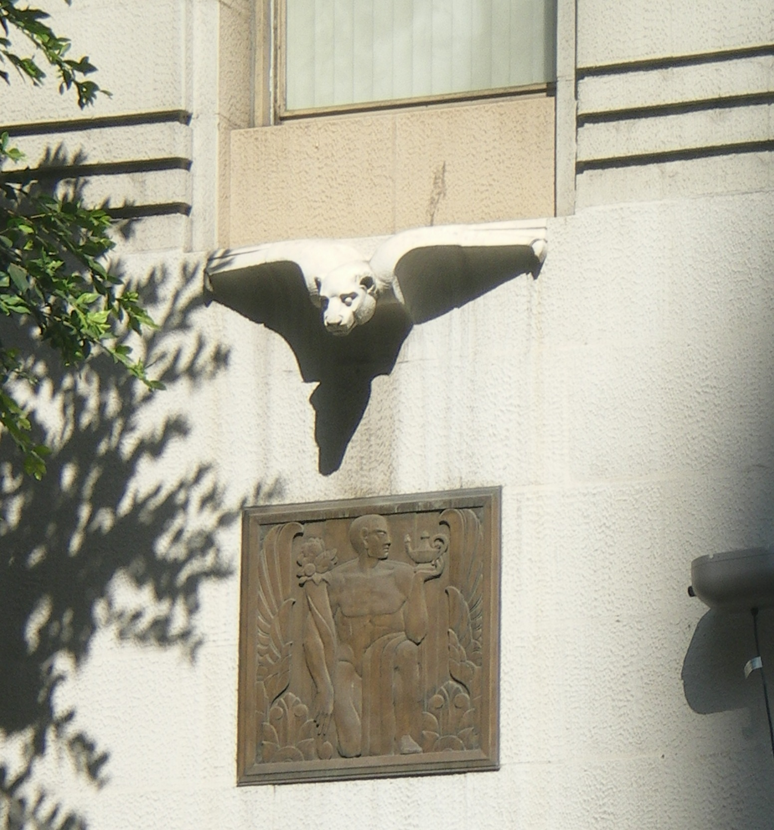 Decorations above front entrance to the old E.F. Hutton Building (now part of Premiere Towers), 621 S. Spring St., Los Angeles, California